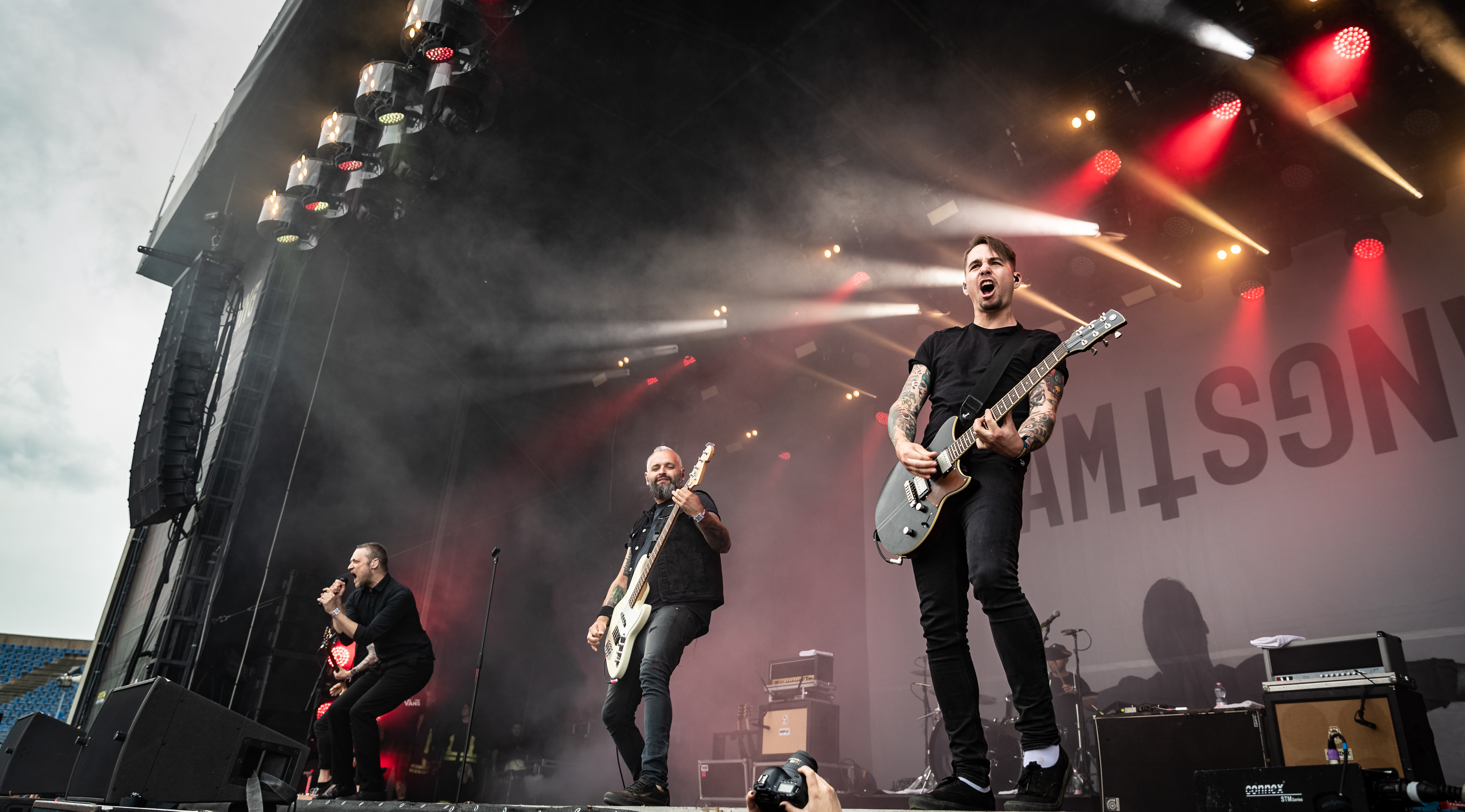 Adam Angst - Rock am RIng 2019